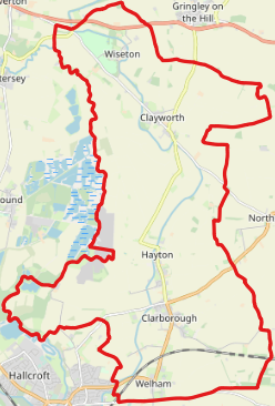 Map of the Clayworth ward of Bassetlaw. This map may be incomplete, and may contain errors. Don't rely solely on it for navigation.